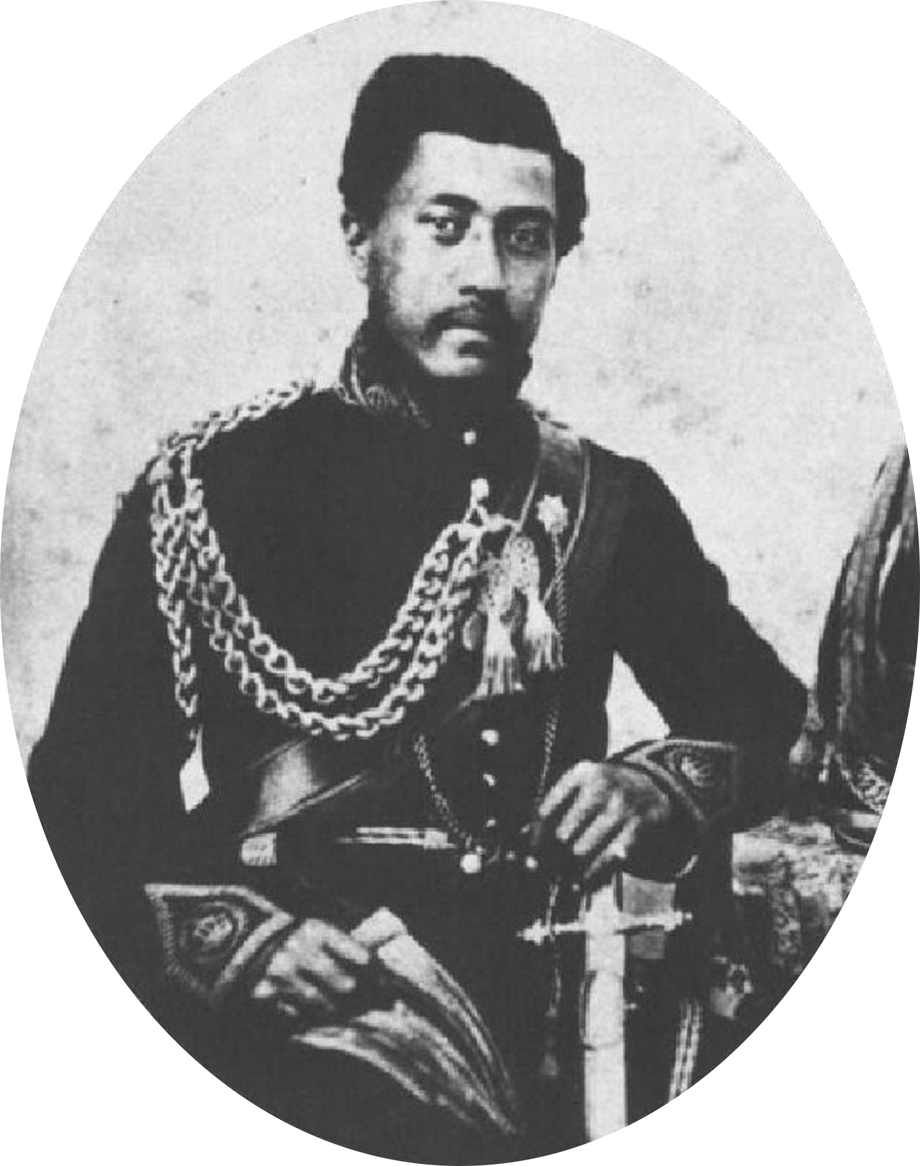 William Charles Lunalilo in uniform.